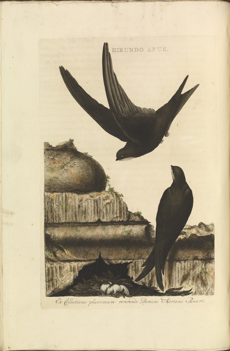 Plate 20 from the Nederlandsche vogelen by Nozeman and Sepp.